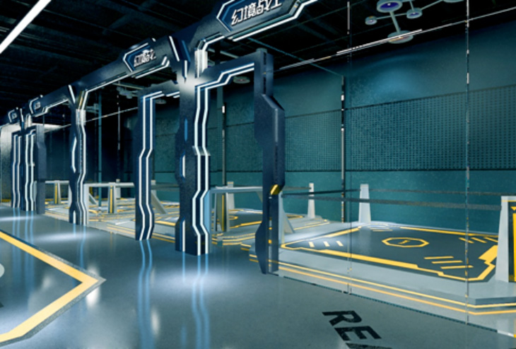 A shot of the interior of the Children Virtual Reality Center